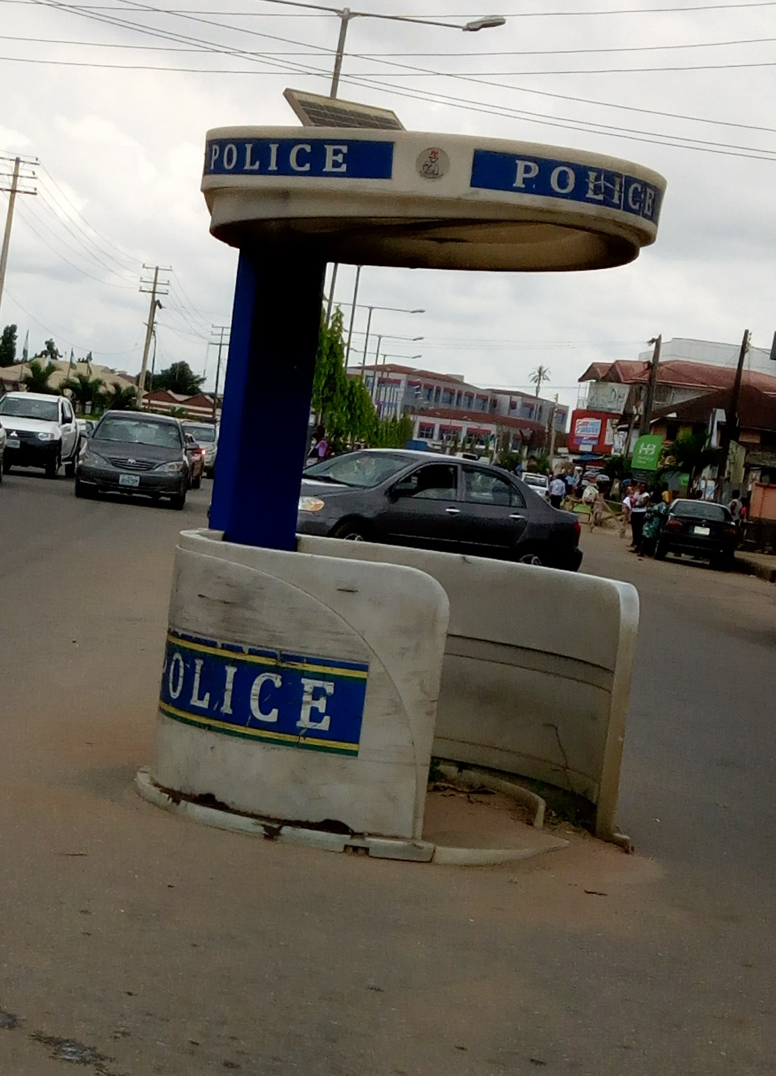 A police shed for standing during rainy and sunny period of work on road traffic This is an image of "African people at work" from Nigeria